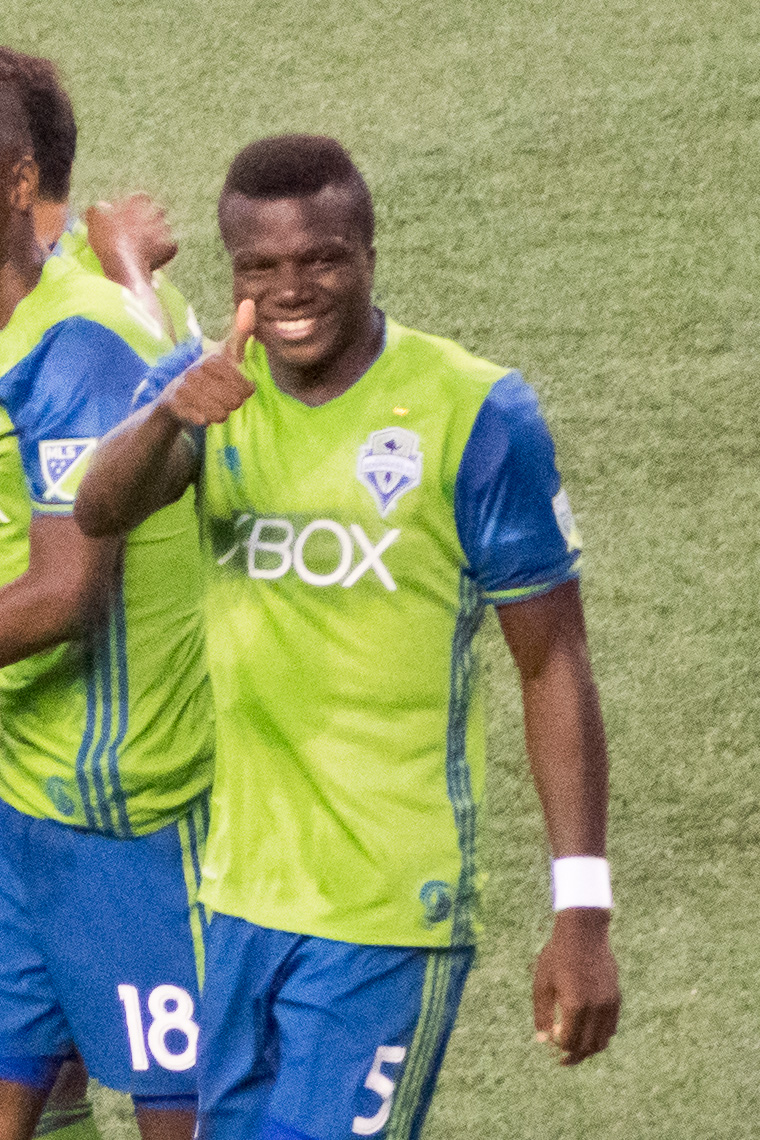 Nouhou during Seattle Sounders FC vs. San Jose Earthquakes on July 23, 2017